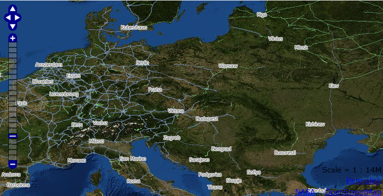 OpenAerialMap map snapshot of Central Europe with OpenStreetMap roads layer